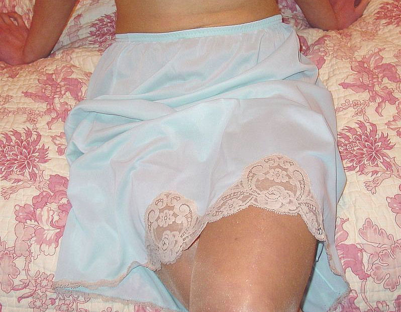 half slip with écru lace